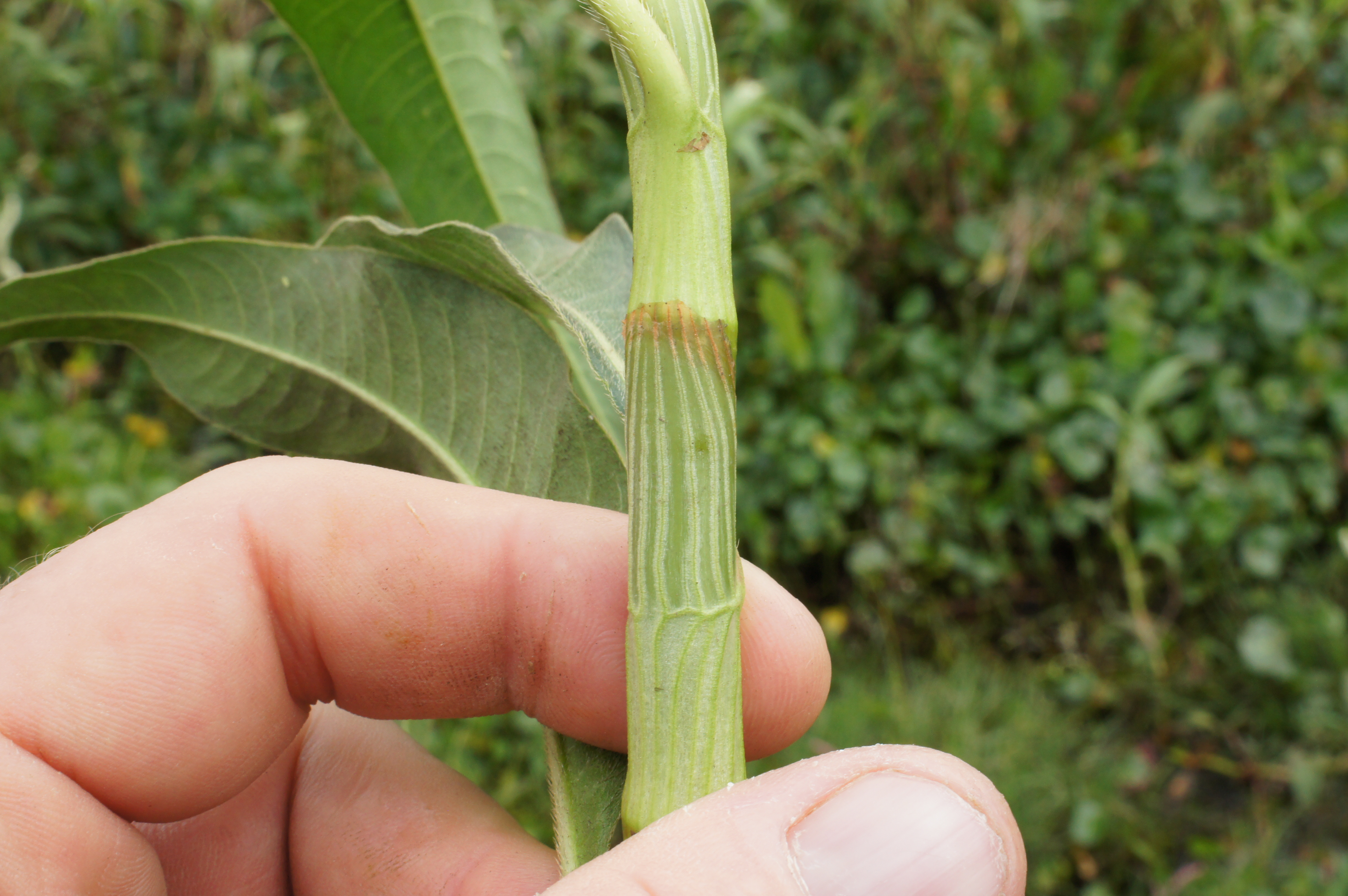 Native (?), warm season, annual, erect to ascending herb 50–180 cm tall; sometimes rooting at nodes, often reddish and with scattered sessile glands. Leaves are ovate to narrow-elliptic, 6–21 cm long, 10–45 mm wide, glandular and occasionally with a dark mark on the upper surface. Flowerheads are elongate-cylindrical, dense spikes, 2.5–6 cm long, 4–7 mm diam., with flowers crowded and overlapping. Perianth segments are 1.5–2.7 mm long and white to pinkish. Widespread over the State and in other States. Generally in habitats favoured by pioneer species and introduced species, so its status is not clear, but here regarded as probably native. In at least seasonally damp, open situations such as beside streams and roadside ditches.